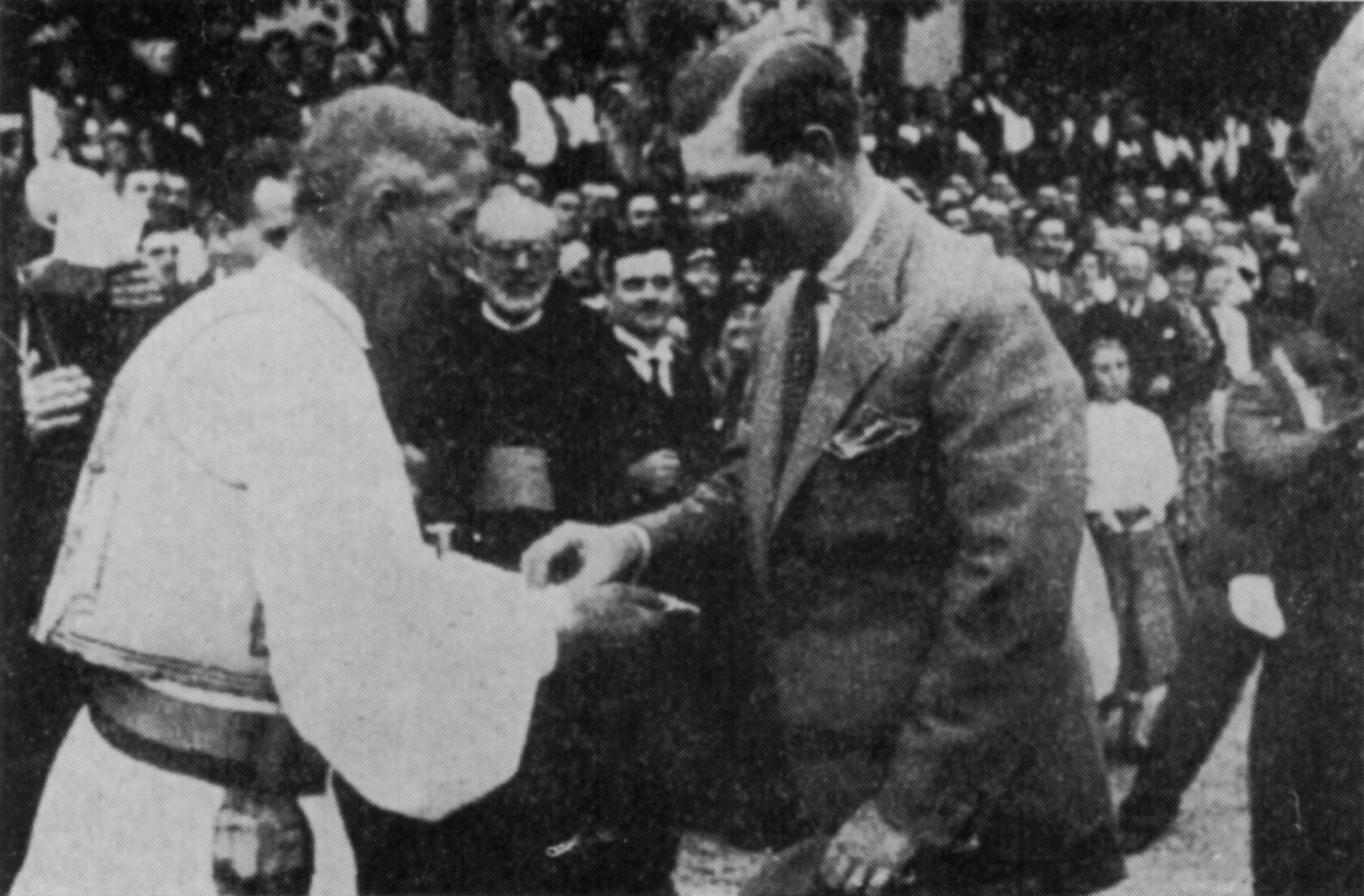 Romanian king Carol II visits a village in the Romanian Banat, 1934.